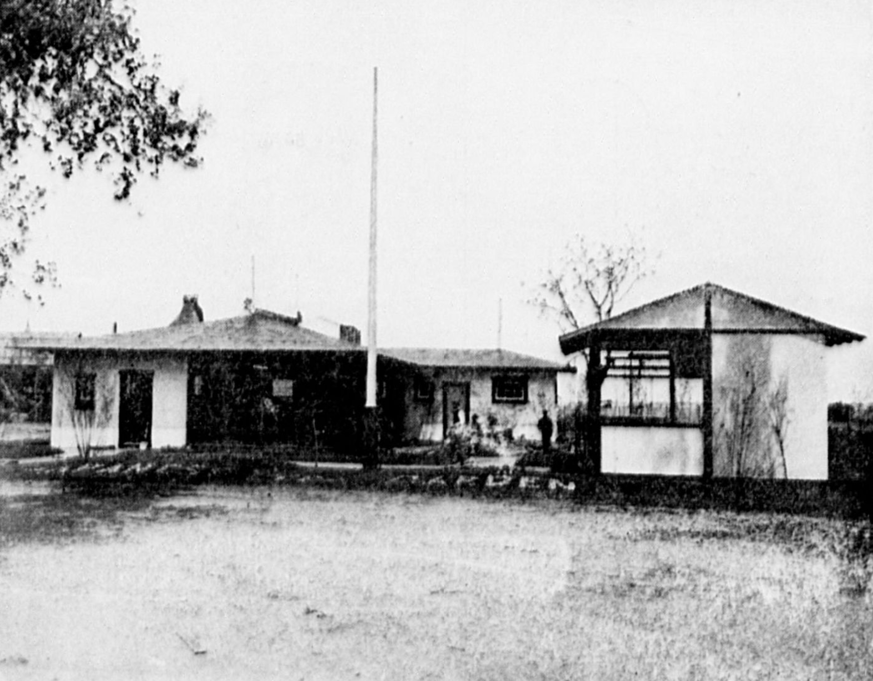 "The Japanese Tea Garden, located on the East Midway or Bluff Tract... in charge of Mr. T. Mizutany, representative of the Great Japan Central Tea Ass'n" (caption).